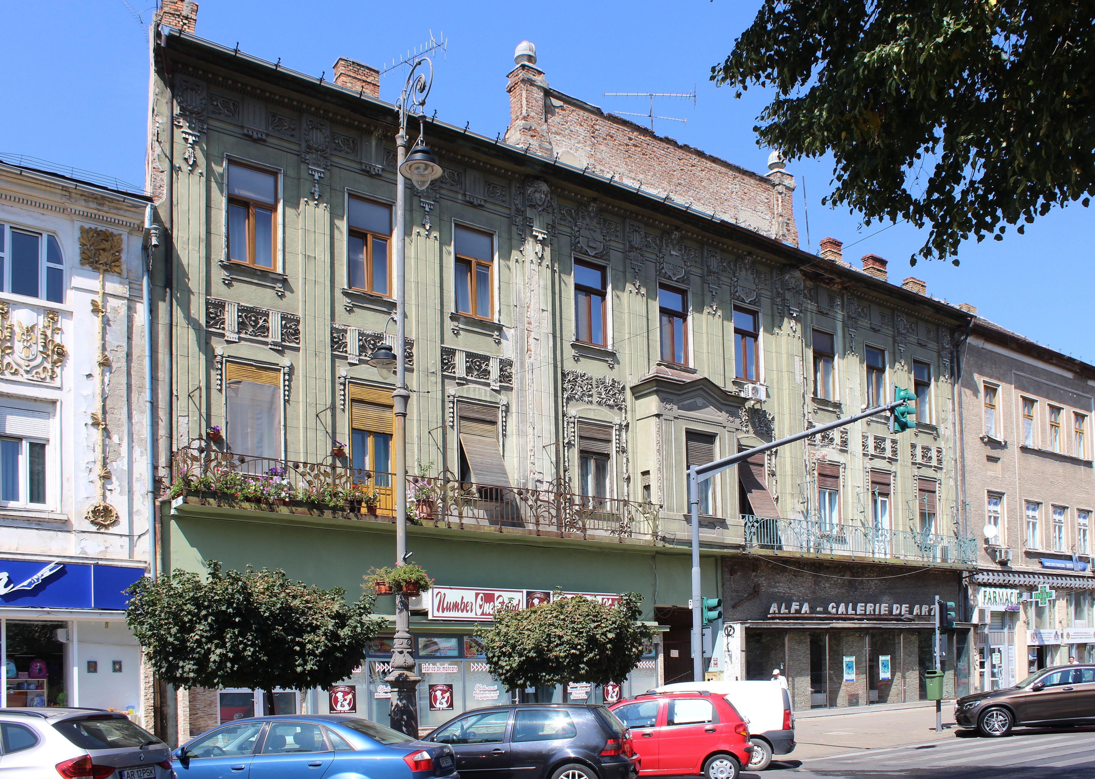 Reinhardt Palace, Arad, Romania, built early of 19th century